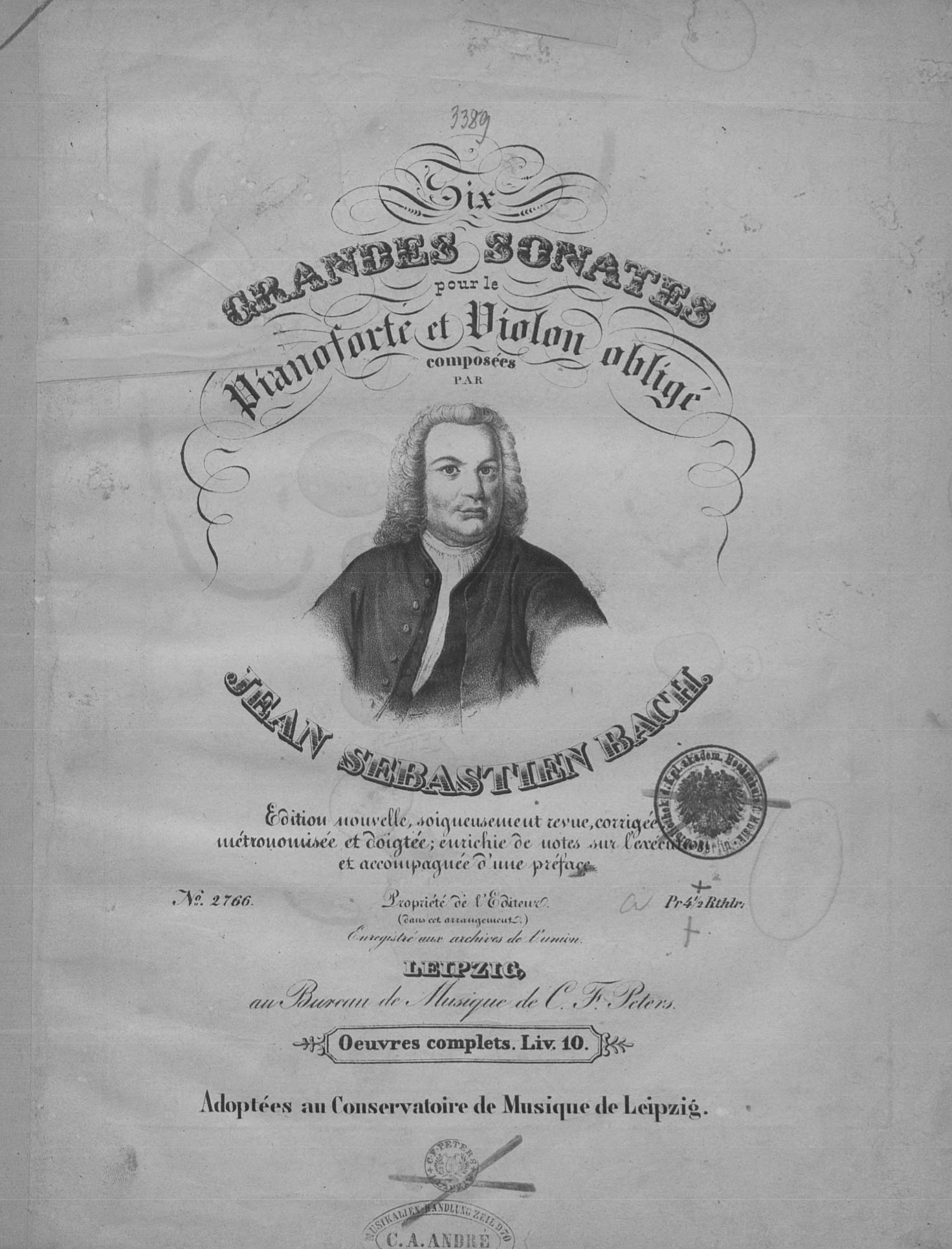 Title page of Bach's Six Grandes Sonates pour le Pianforté et Violon Obligé, dited by Czerny and Lipinski and published by C.F. Peters